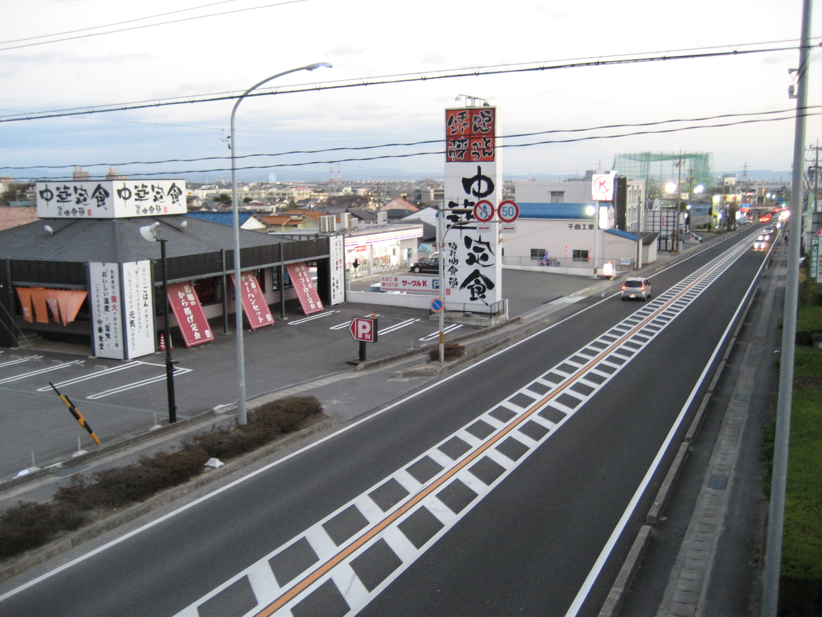 Route 1 in Toyoake, Aichi, Japan